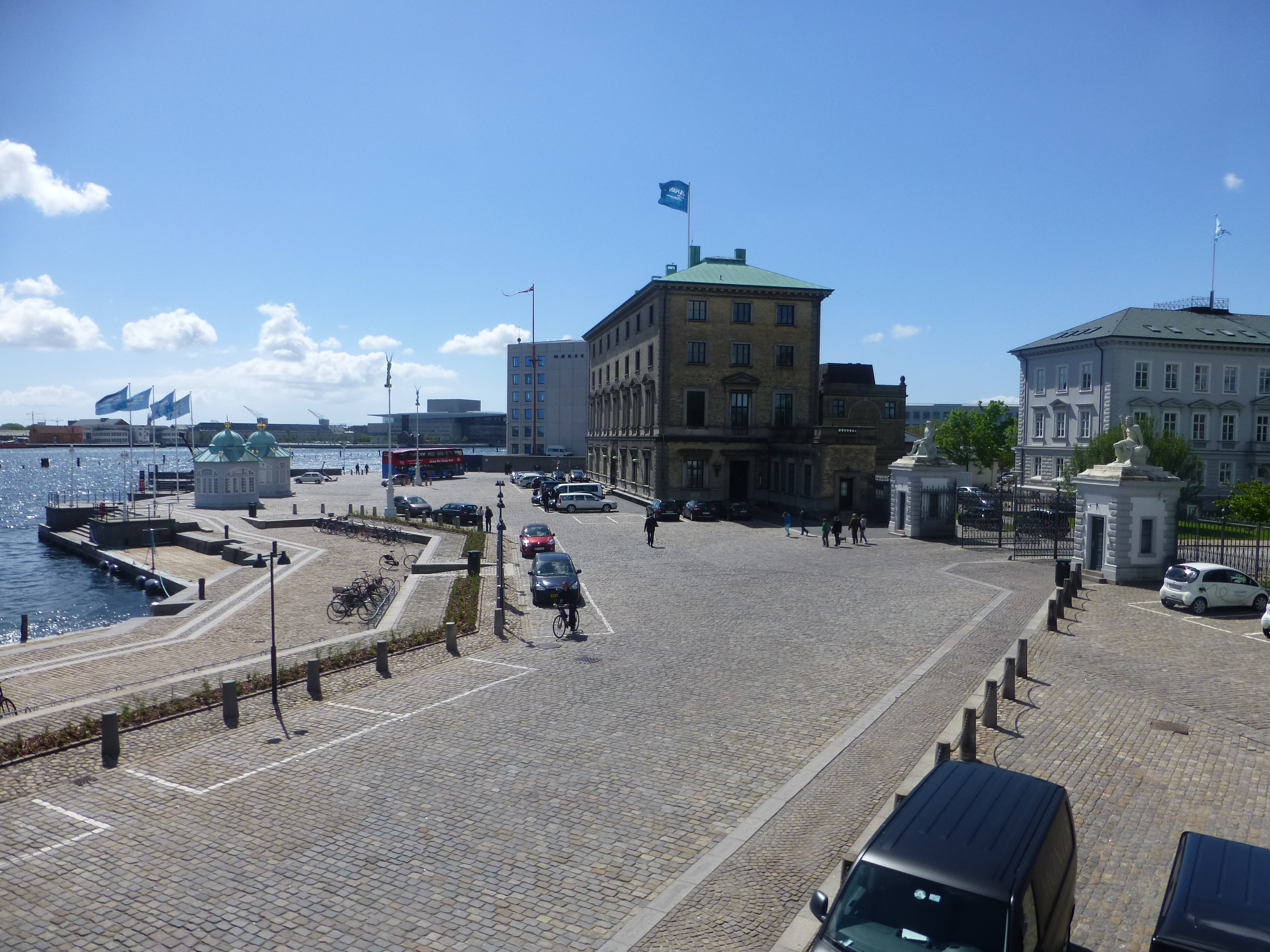 The square Nordre Toldbod in Indre By, Copenhagen.